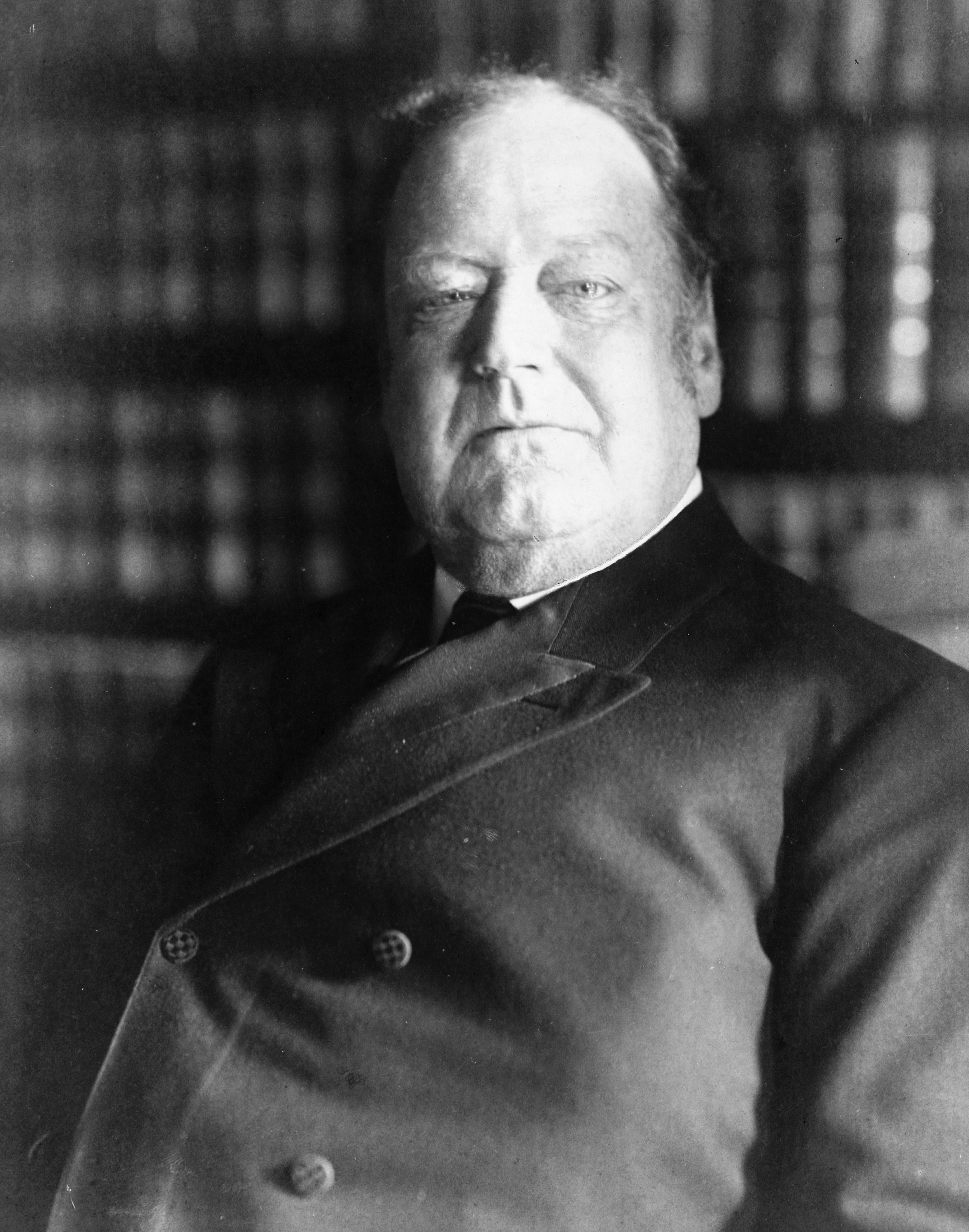 Edward Douglass White, Associate Justice Supreme Court, head-and-shoulders portrait, facing slightly left